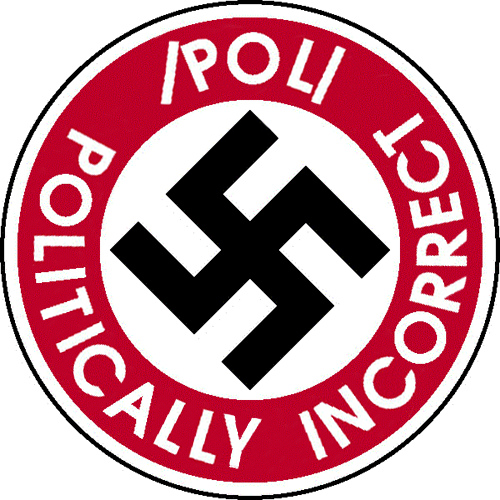 Logo of the /pol/ (Politically Incorrect) imageboard on 4chan. Image used to illustrate the article at zh:4chan.